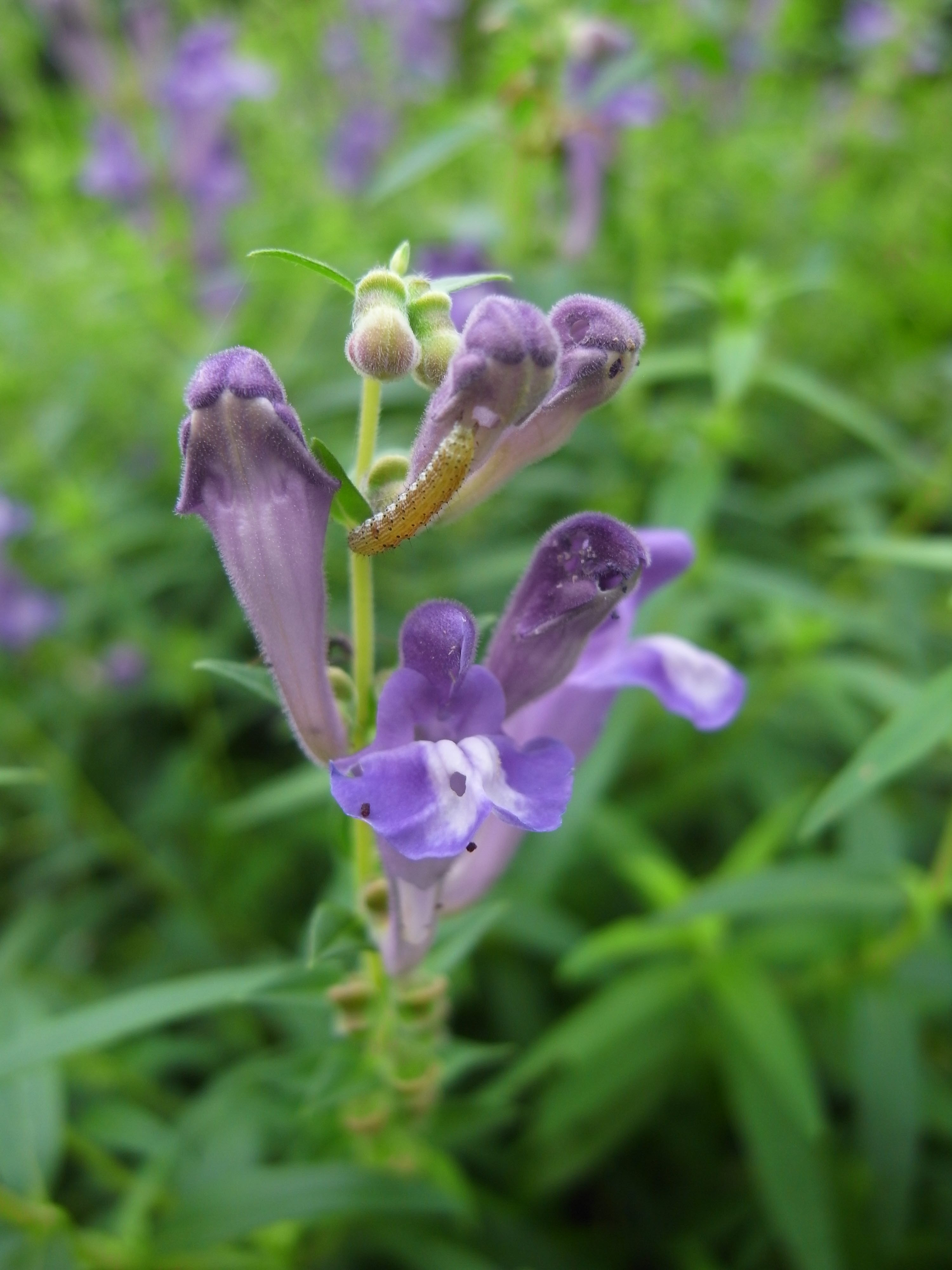 Scutellaria baicalensis